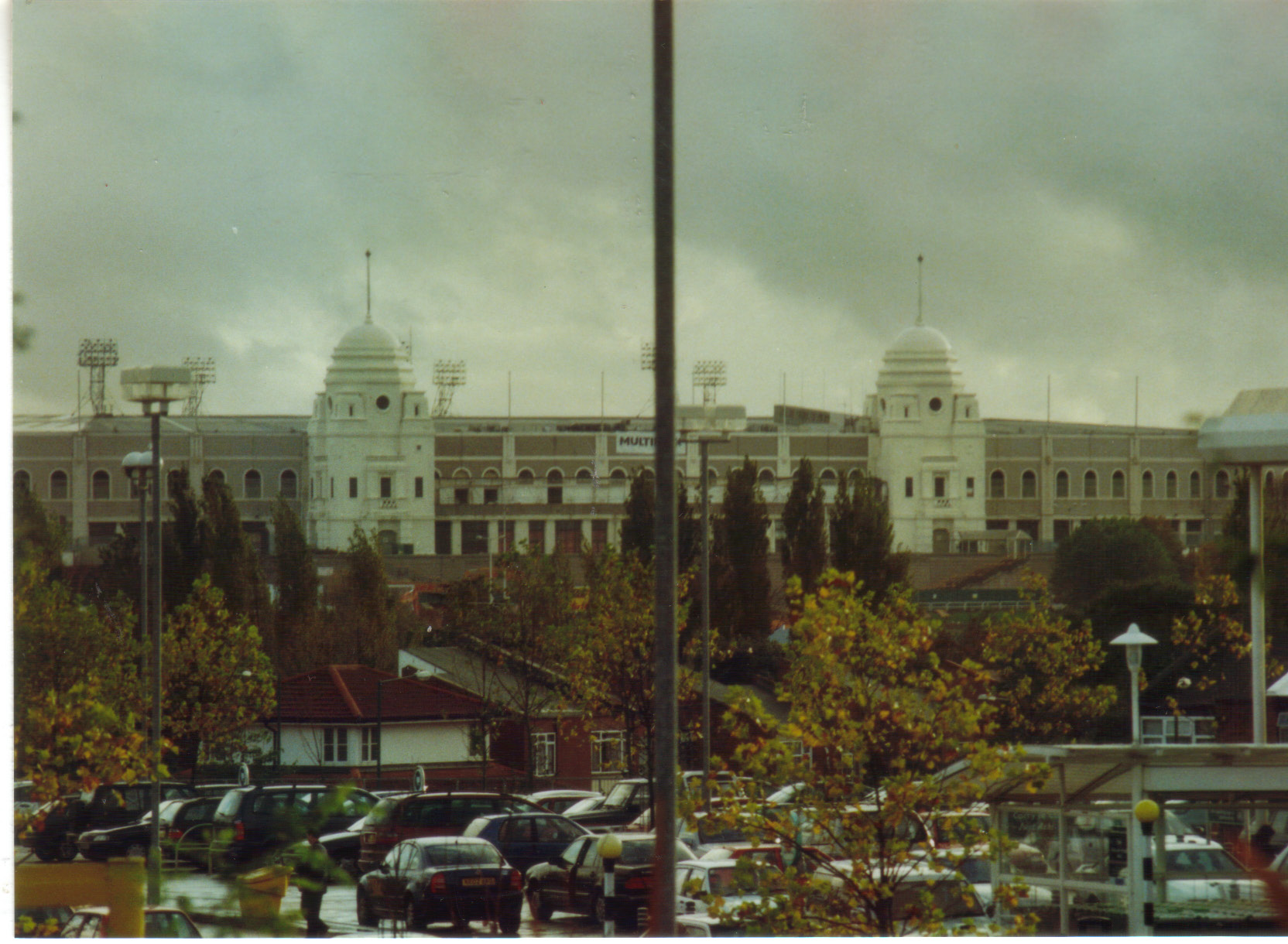 Twin Towers of Wembley Stadium